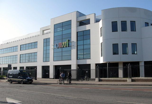 Omni Park Shopping Centre, Santry, Dublin, Ireland This is the new wing of the shopping centre, opened December 2006. It incorporates a multiplex cinema and two restaurants.